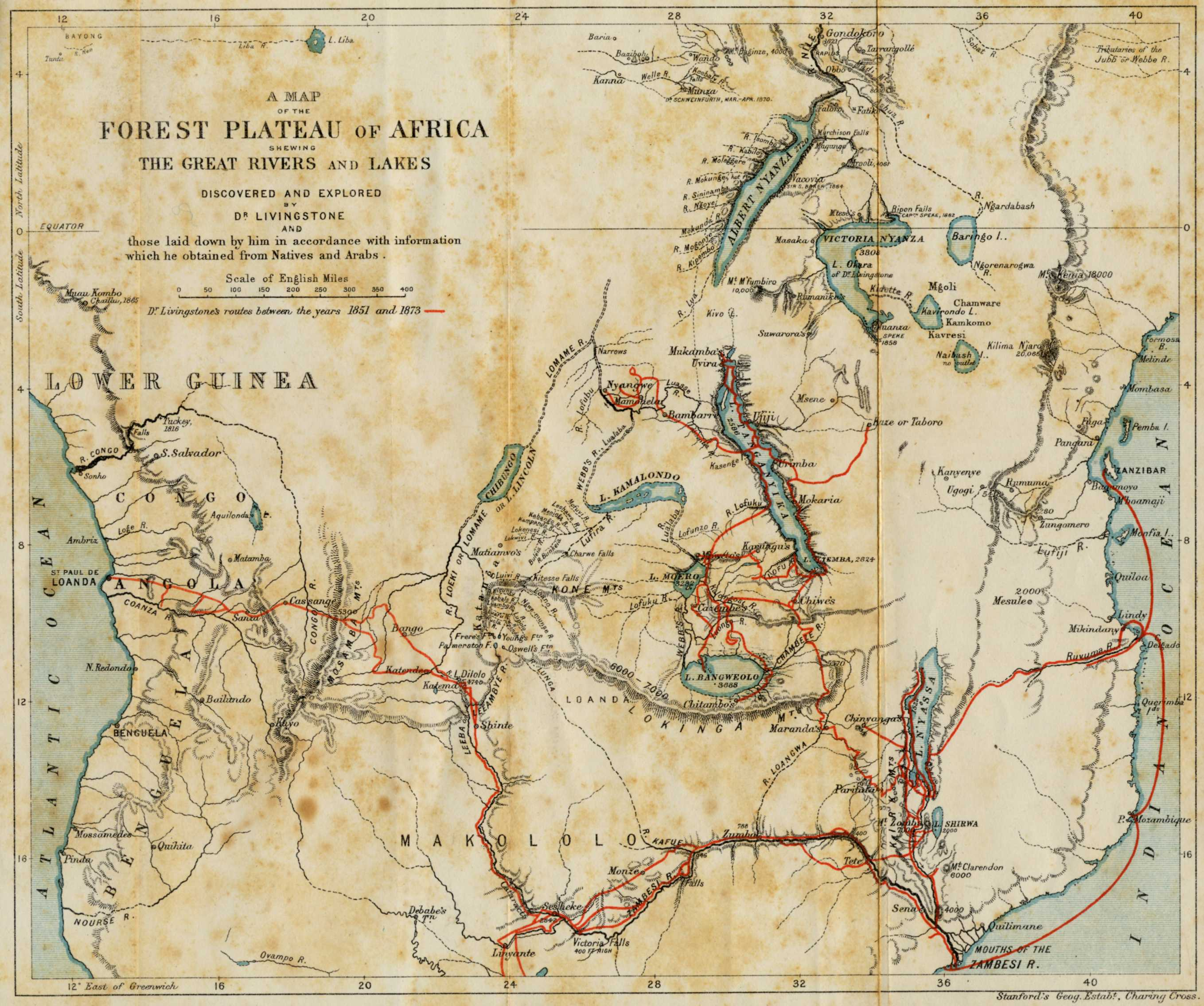 Map of the Travels of David Livingstone in Africa